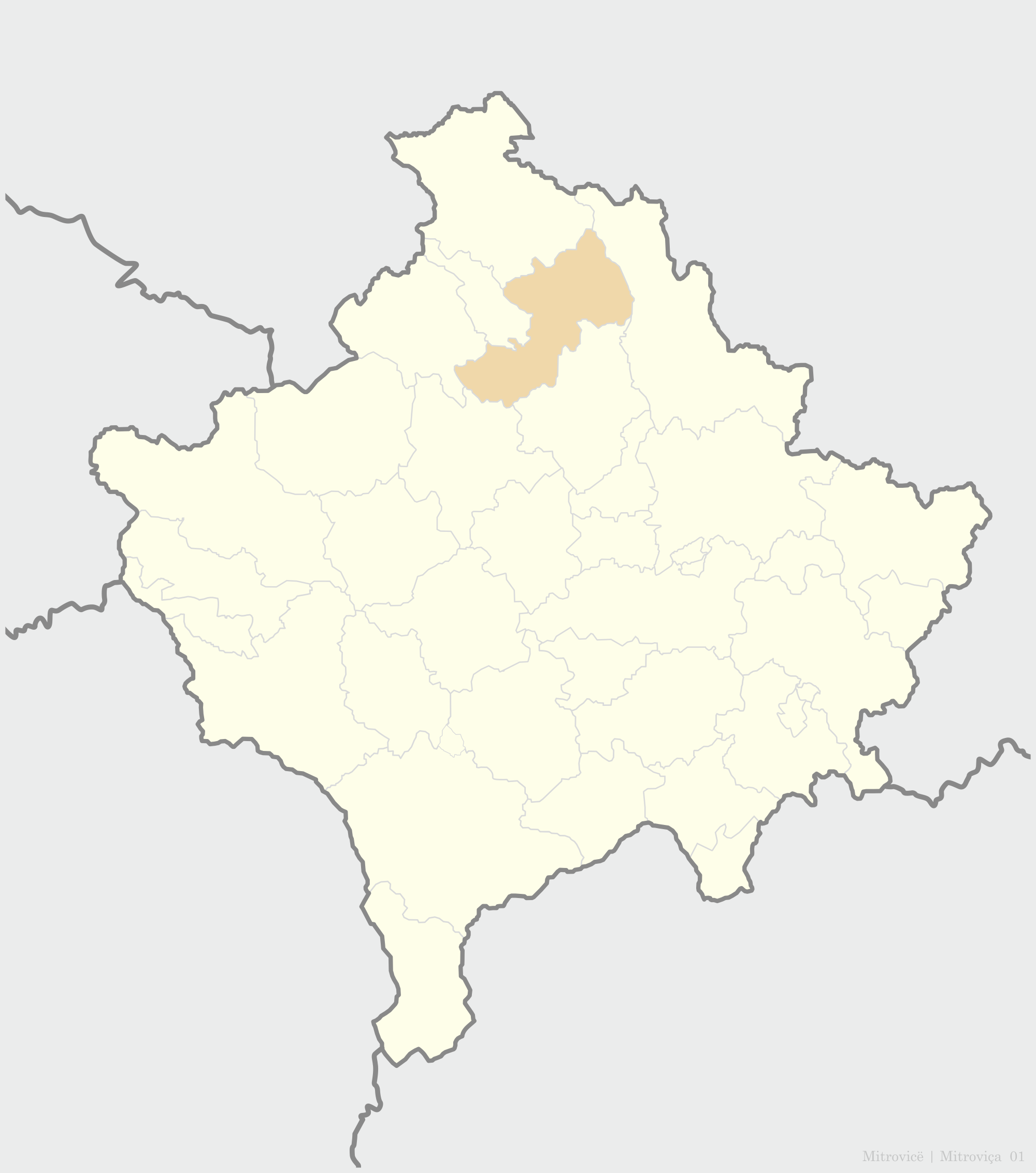 Municipality of Kosovska Mitrovica map